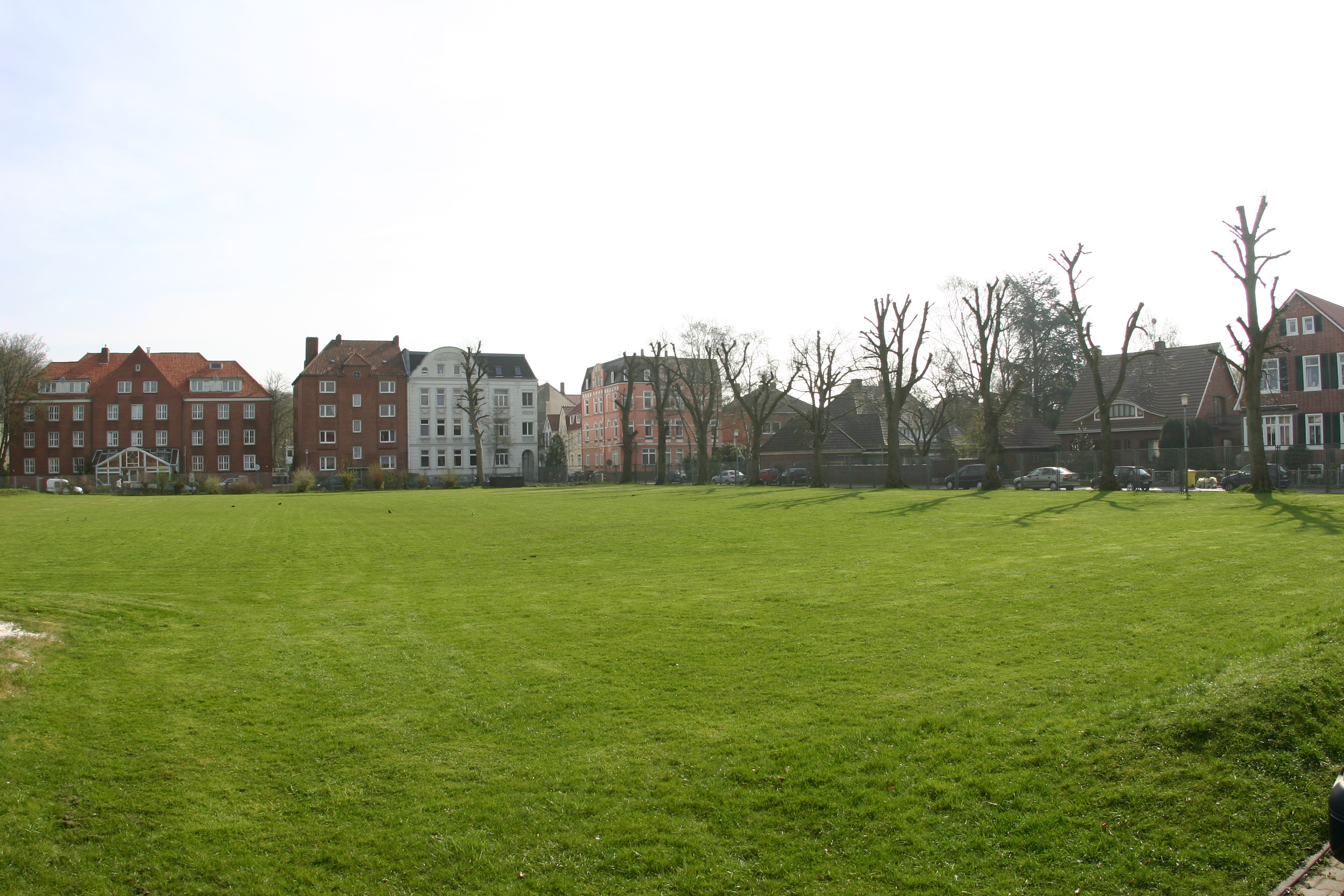 Bronsplatz in Emden, East Frisia, Germany, former ground of football club BSV Kickers Emden (3rd German League)